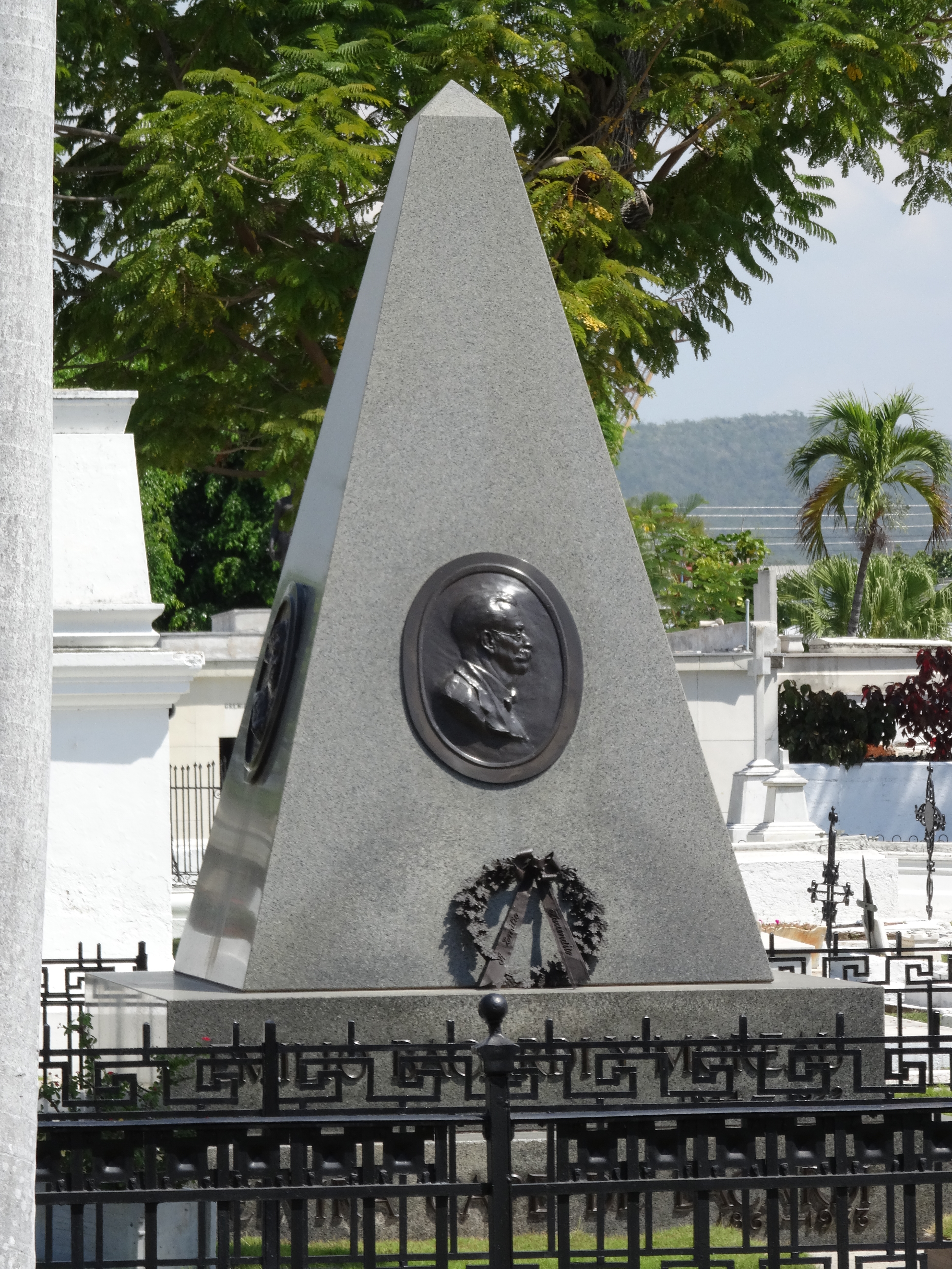 Bacardi family tomb in Santiago de Cuba